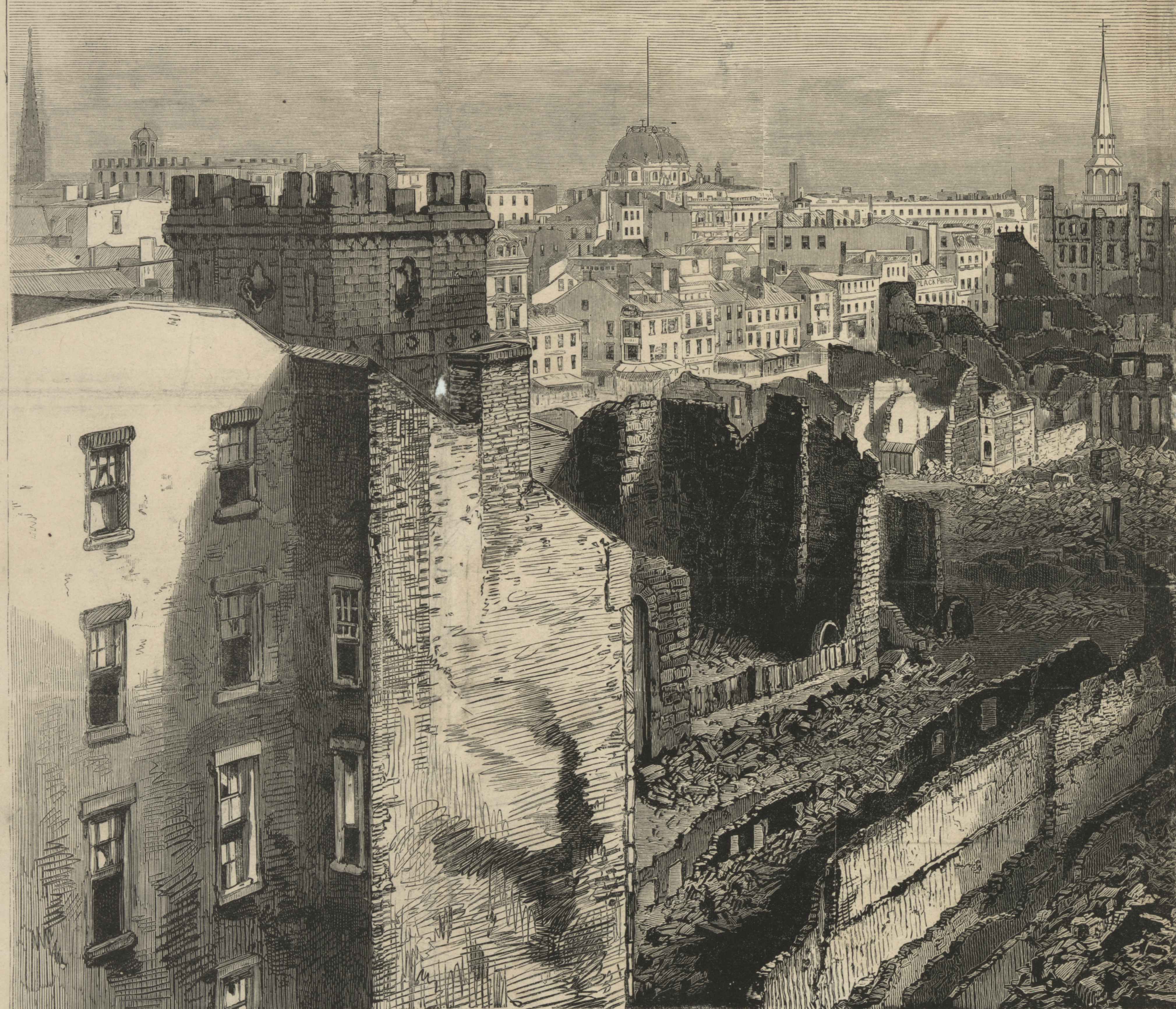 Detail of left-hand page of "Panoramic view of the ruins after the great fire in Boston, from a point opposite Trinity Church in Summer Street." Presented gratuitously as a supplement to No. 901 of Frank Leslie's Illustrated Newspaper. SUMMARY: "Print showing a panorama of the ruins of several buildings in Boston after the fire on November 9-10, 1872, some features identified, Somerset Street Church, Trinity Church, City Hall, Old South Church, New Post-office, Customs House, Arch Street, Summer Street, and the Boston, Hartford & Erie R.R. Depot. Numered key identifies three locations: 1. Franklin Street, 2. Devonshire Street, and 3. Where it all started." --Library of Congress record. MEDIUM: 1 print (2 pages) : wood engraving. CREATED/PUBLISHED: [1872 or 1873]. CREATOR: Frank Leslie's Publishing House. From photographs by J.W. Black of Boston.